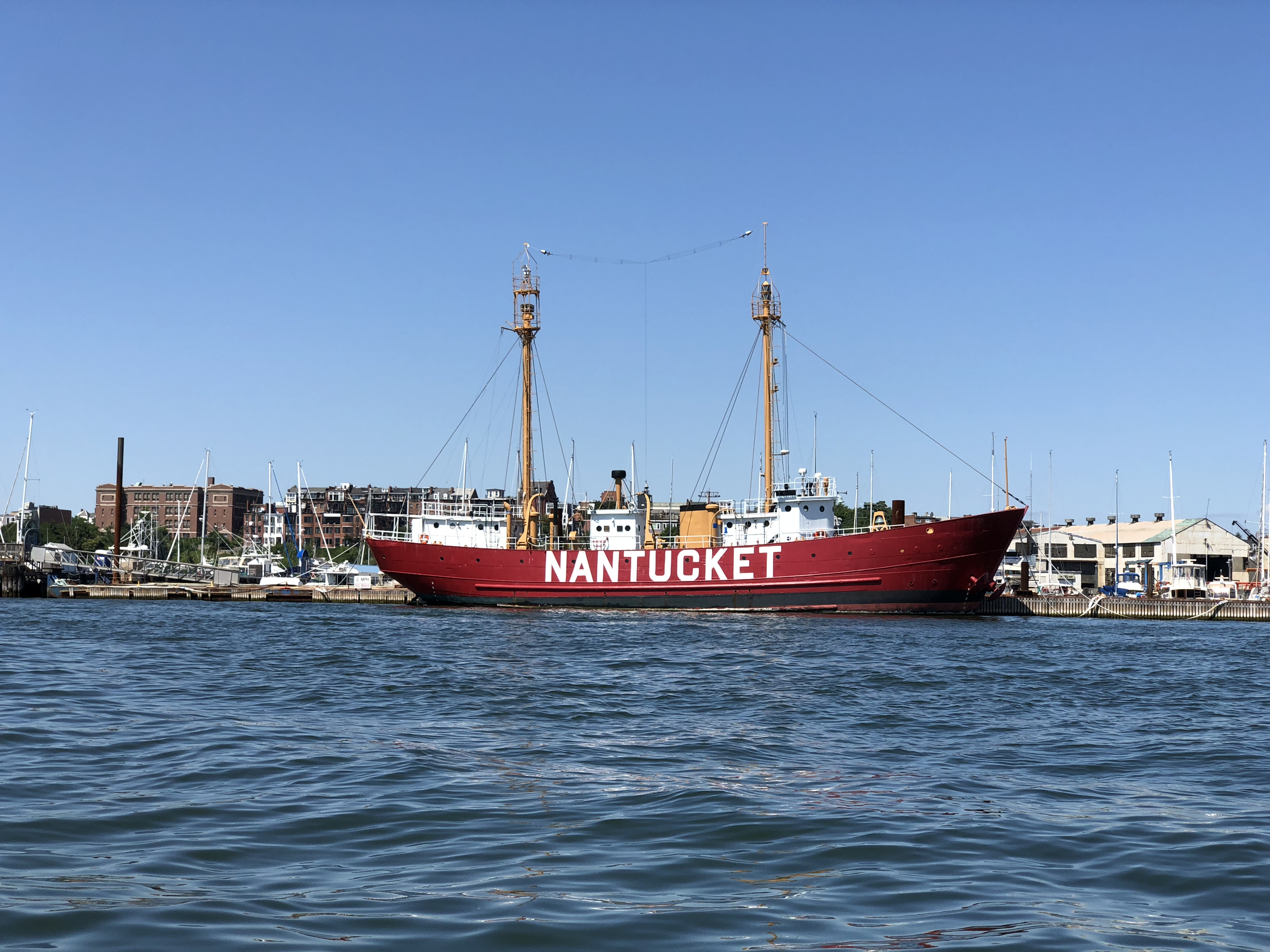 Lightship Nantucket (LV-112) in Boston harbor July 2018